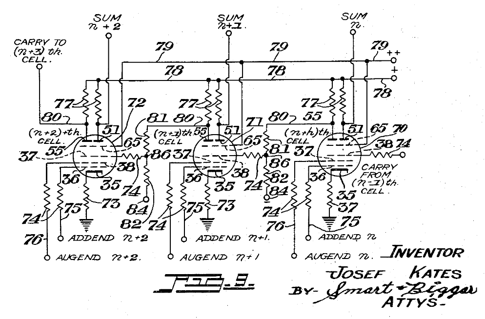 Schematic showing a 3-bit adder using Additron tubes, as per the patent filing